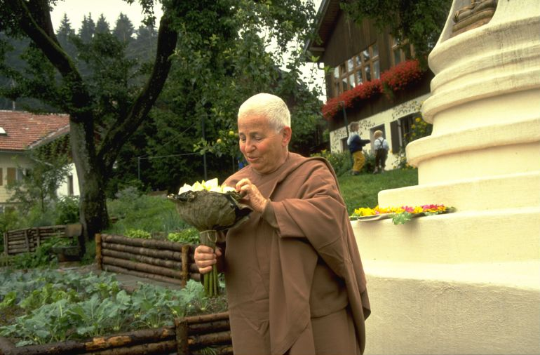 Ayya Khema 1993, Lotus Flowers at the birthday